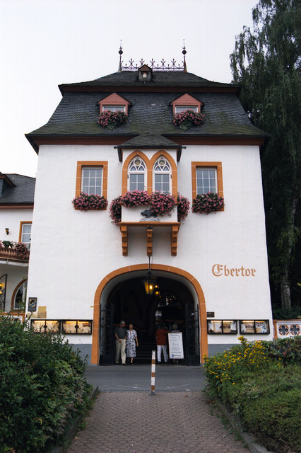 The riverside entrance to the Ebertor Hotel